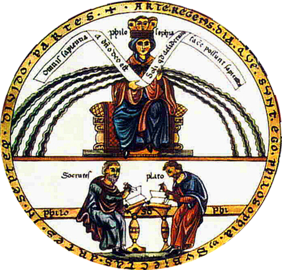 Septem Artes Liberales, detail (Philosophia).